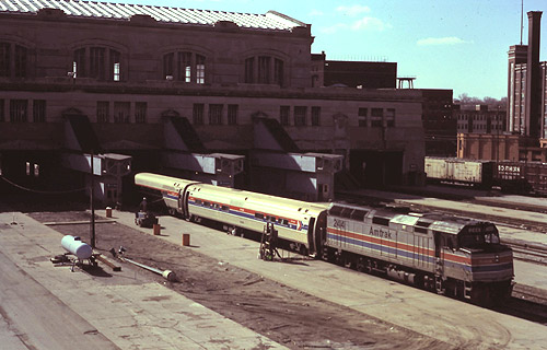 The westbound Kansas City Mule lays over at Kansas City Union Station to become the eastbound St. Louis Mule in March 1981